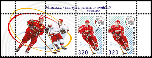 Stamp of Belarus